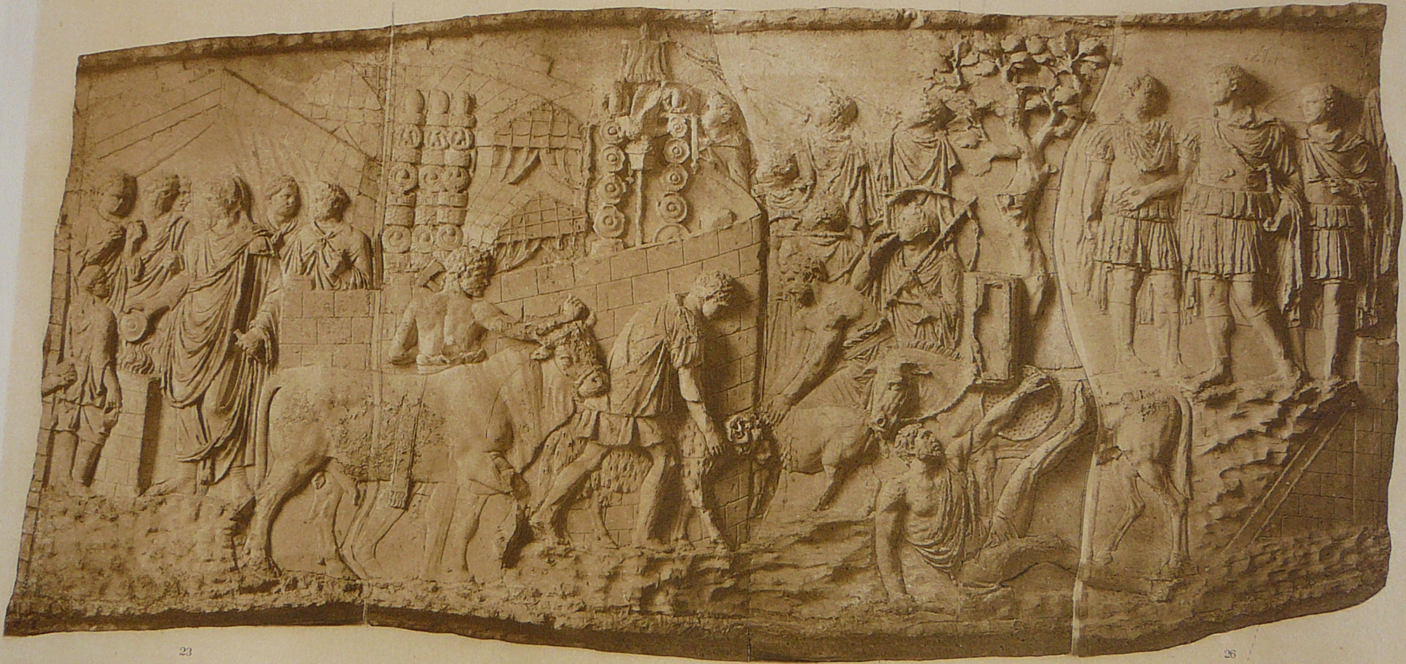 Suovetaurilia (scene VIII); princeps and peasant (scene IX)